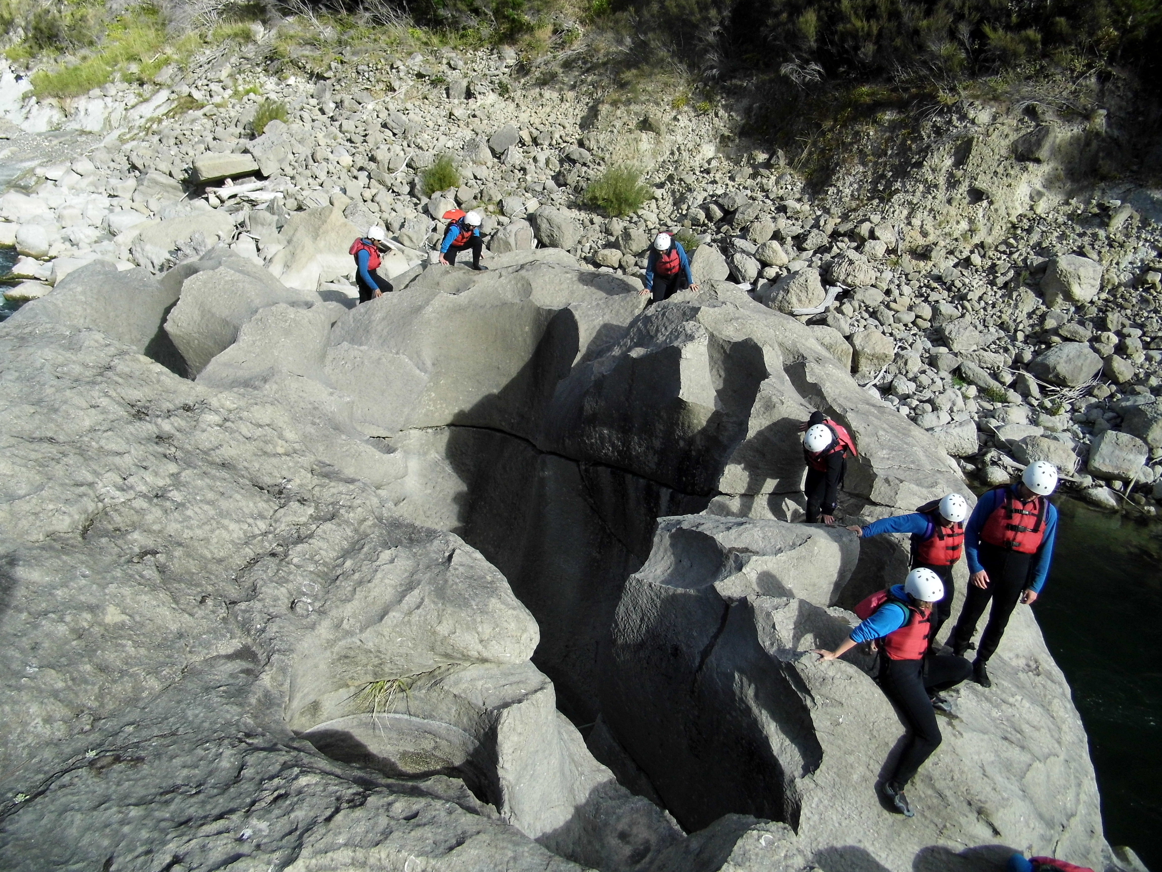 A large rock that allows people to crawl through the fissures above Willow Flat.